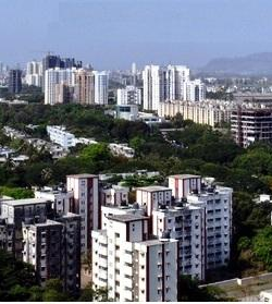 kanjur panorama cropped